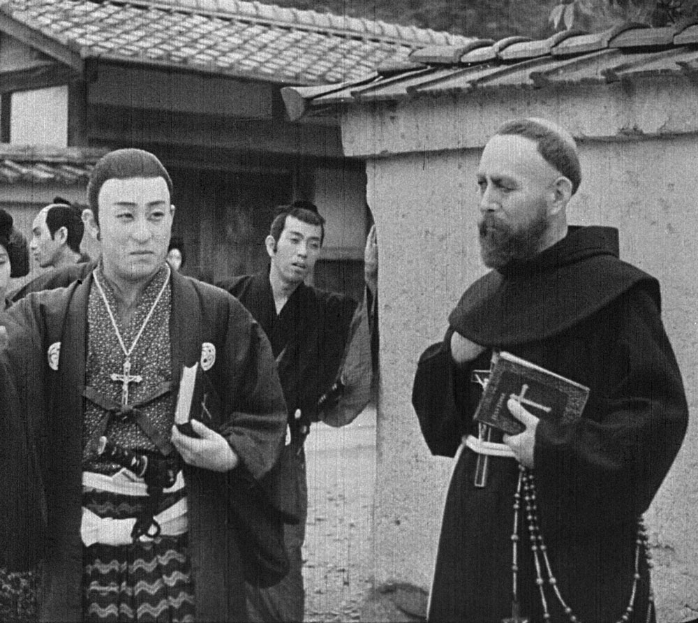 Junkyō kesshi Nihon nijūroku seijin (殉教血史 日本二十六聖人) directed by Tomiyasu Ikeda - 1931